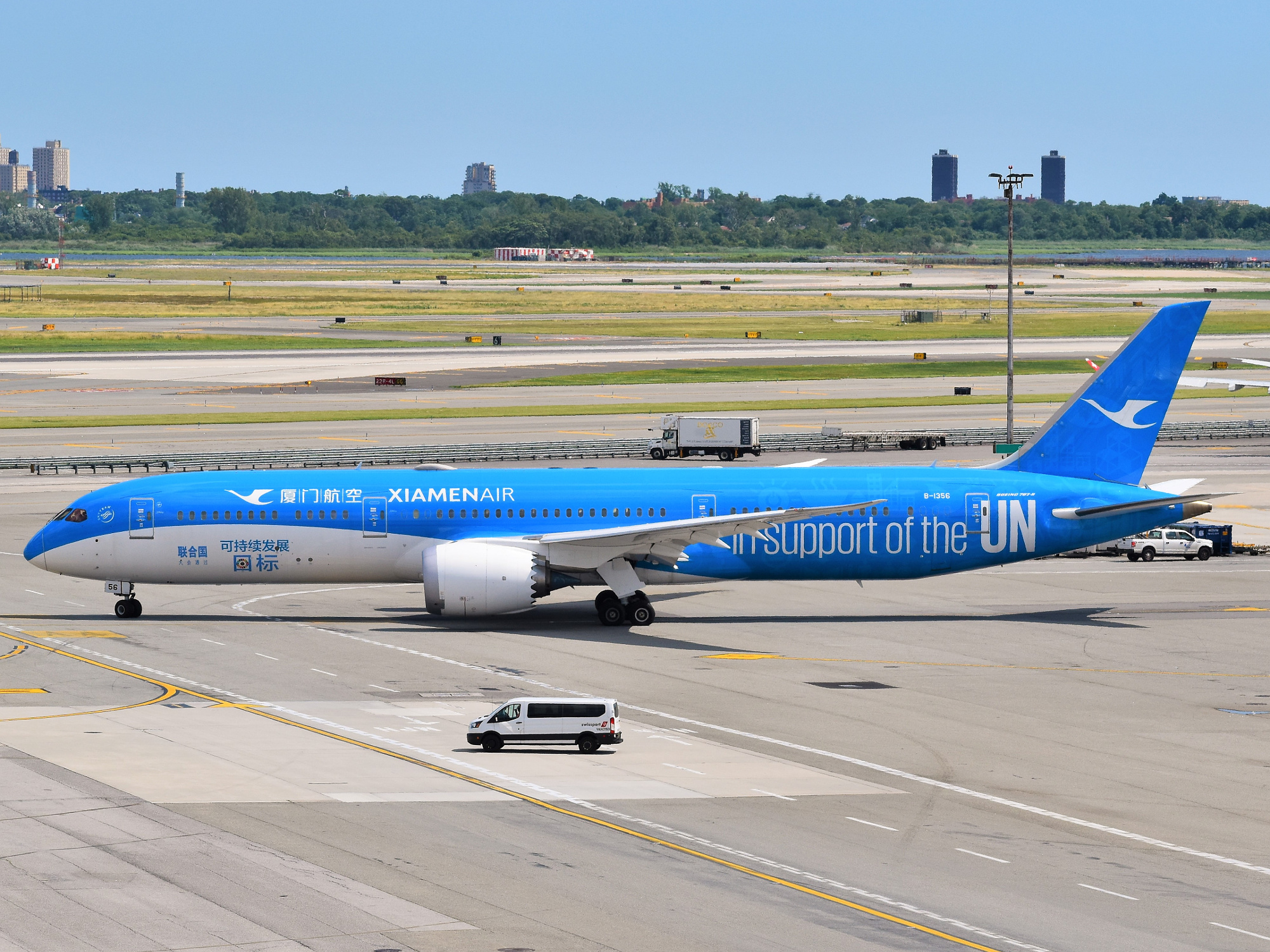 A XiamenAir Boeing 787-9 Dreamliner is taxiing out for departure from New York to Fuzhou as MF850. This particular plane is painted in a United Nations special livery.